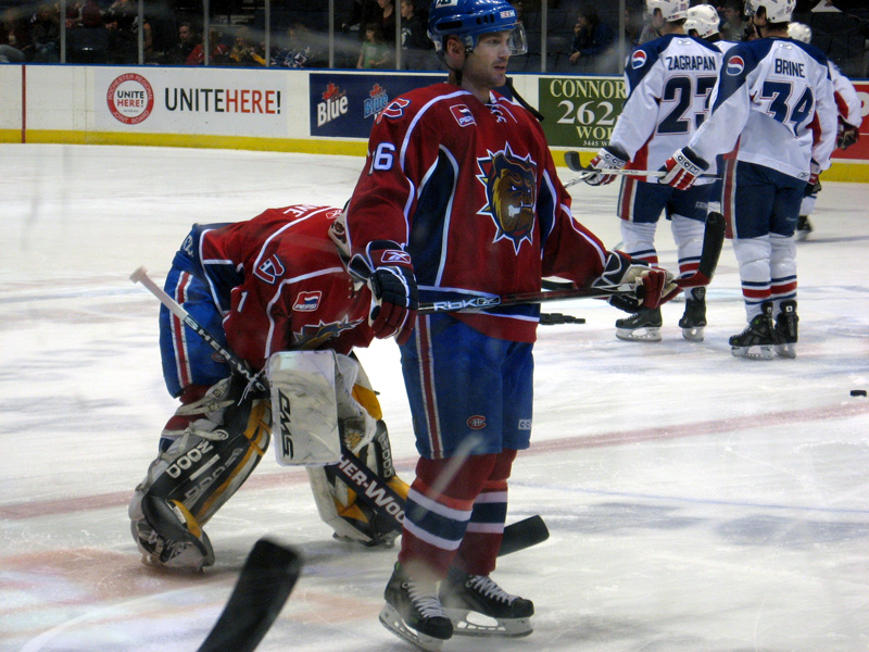 Andre Benoit and Philippe Sauve, Hamilton Bulldogs 2007